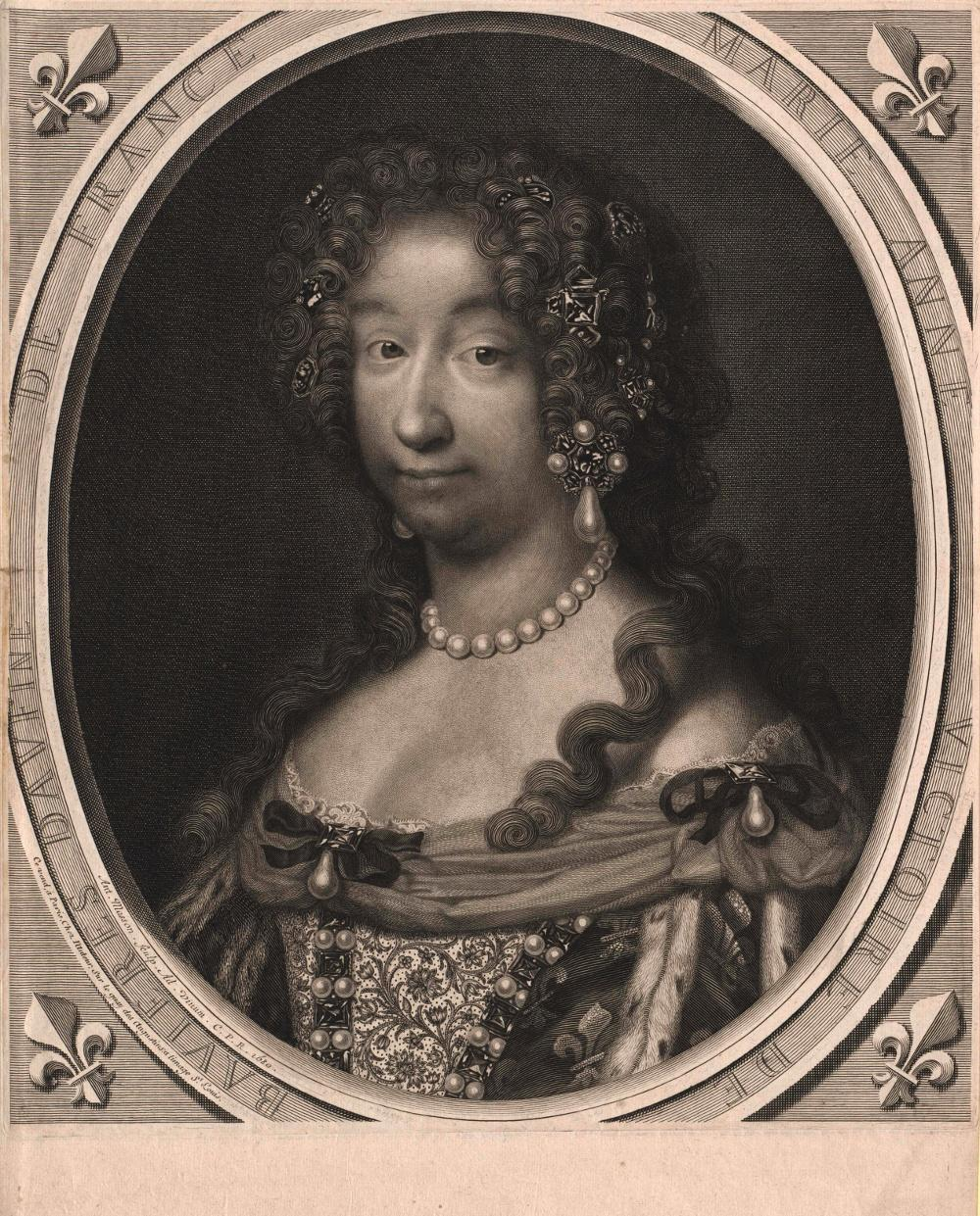 Dauphine Victoire